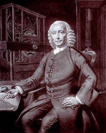 Portrait of John Harrison (1693-1776), English clockmaker